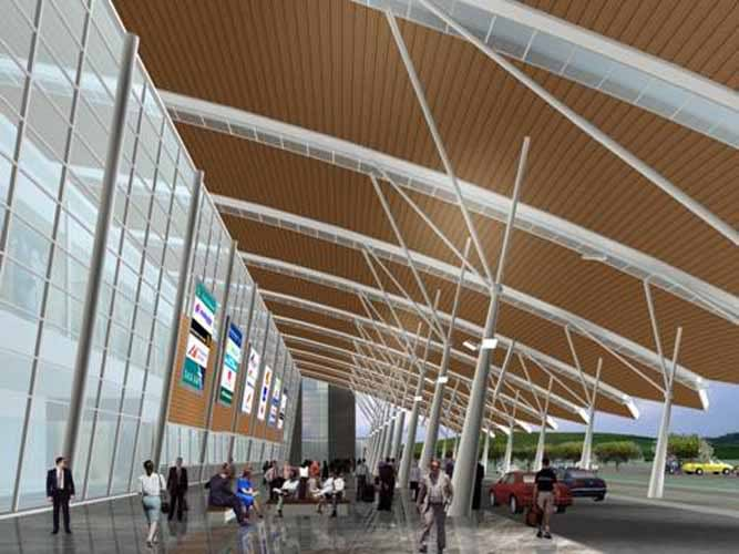 Enterance to Departures Hall of the Samarinda International Airport (rendering)